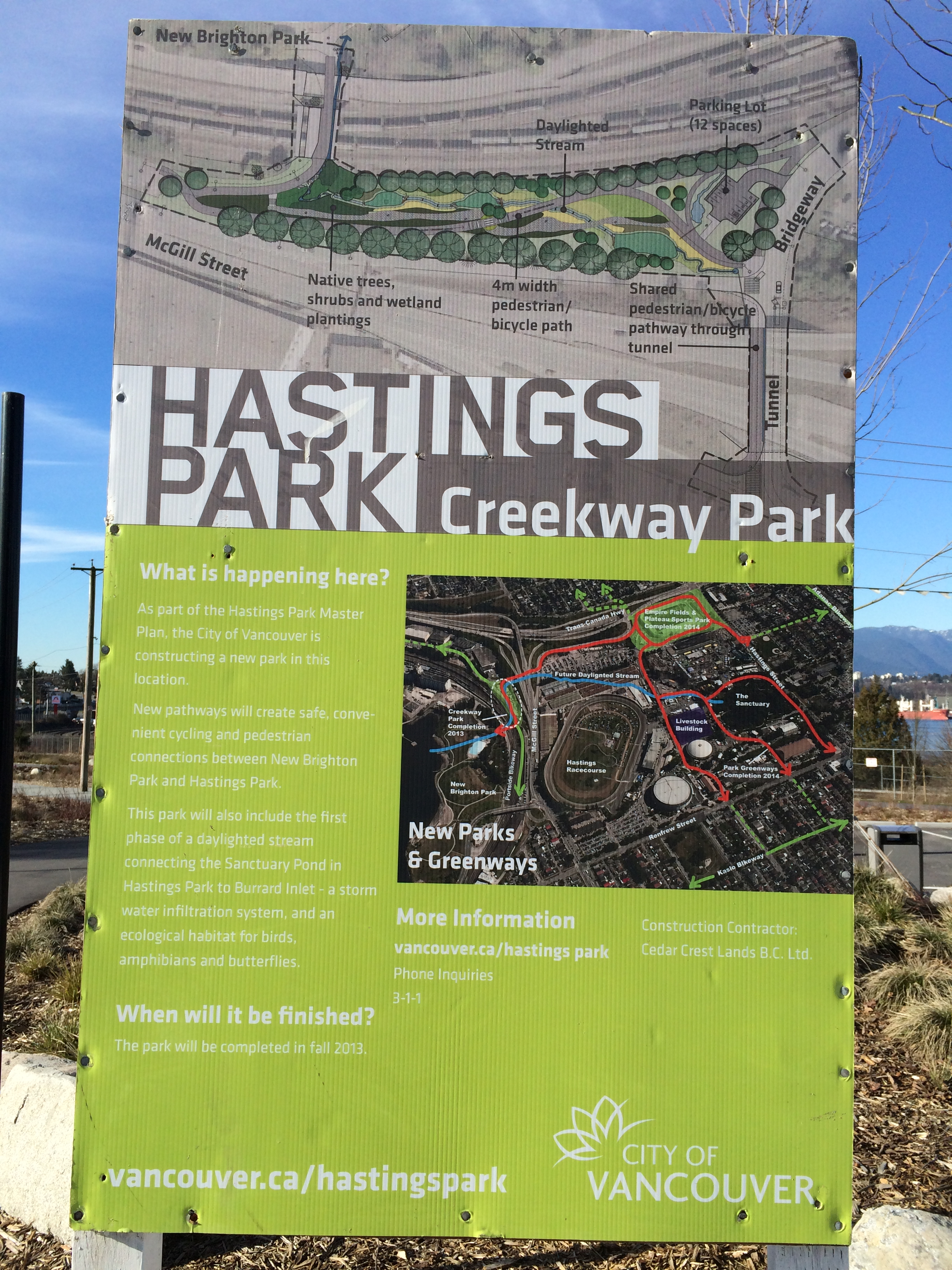 Taken at New Brighton Park